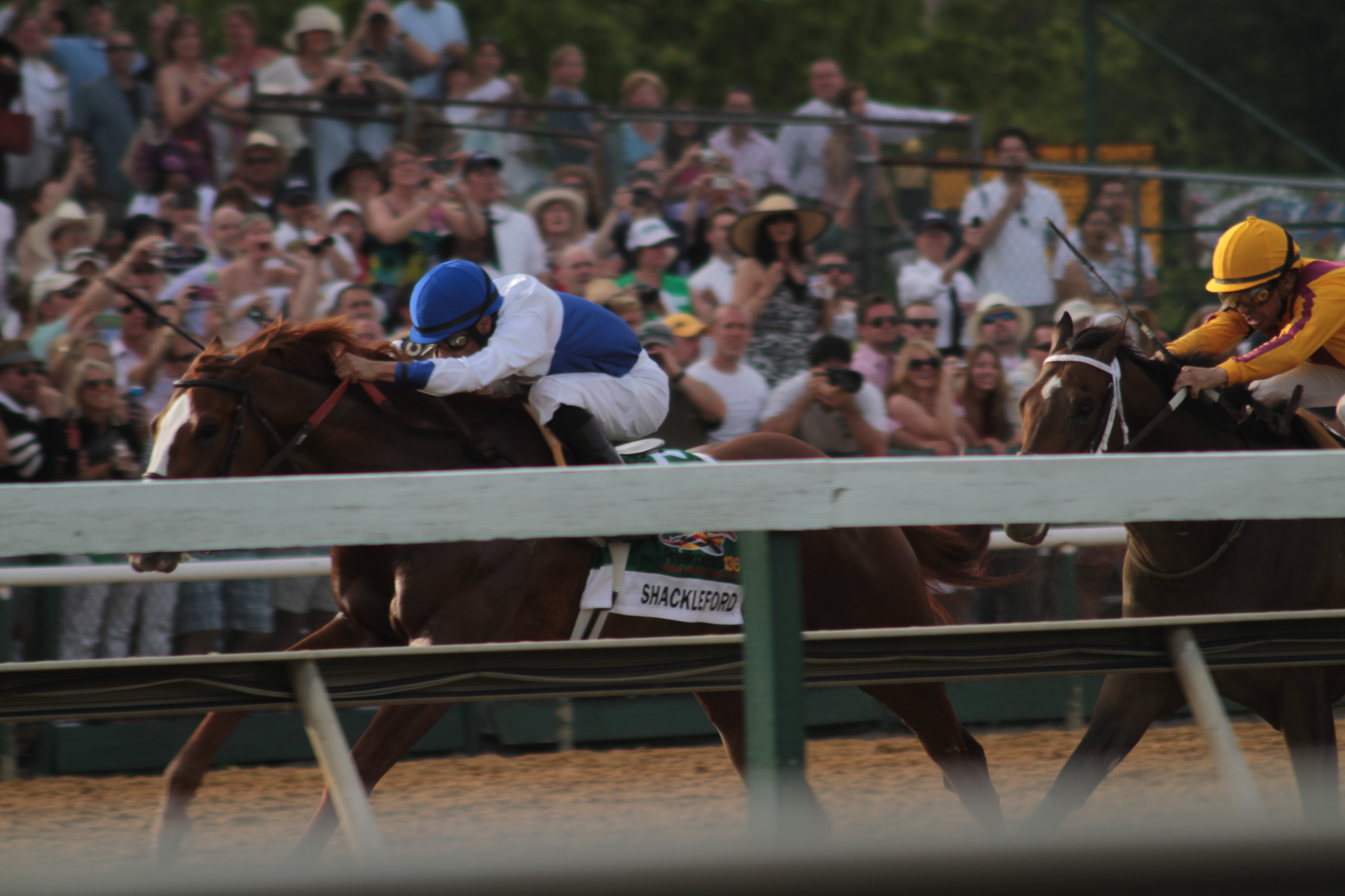 Shackleford and Animal Kingdom (right) fighting for the win at the 2011 Preakness Stakes run on May 21, 2011. Shackleford was fourth in the Kentucky Derby to the winner Animal Kingdom.